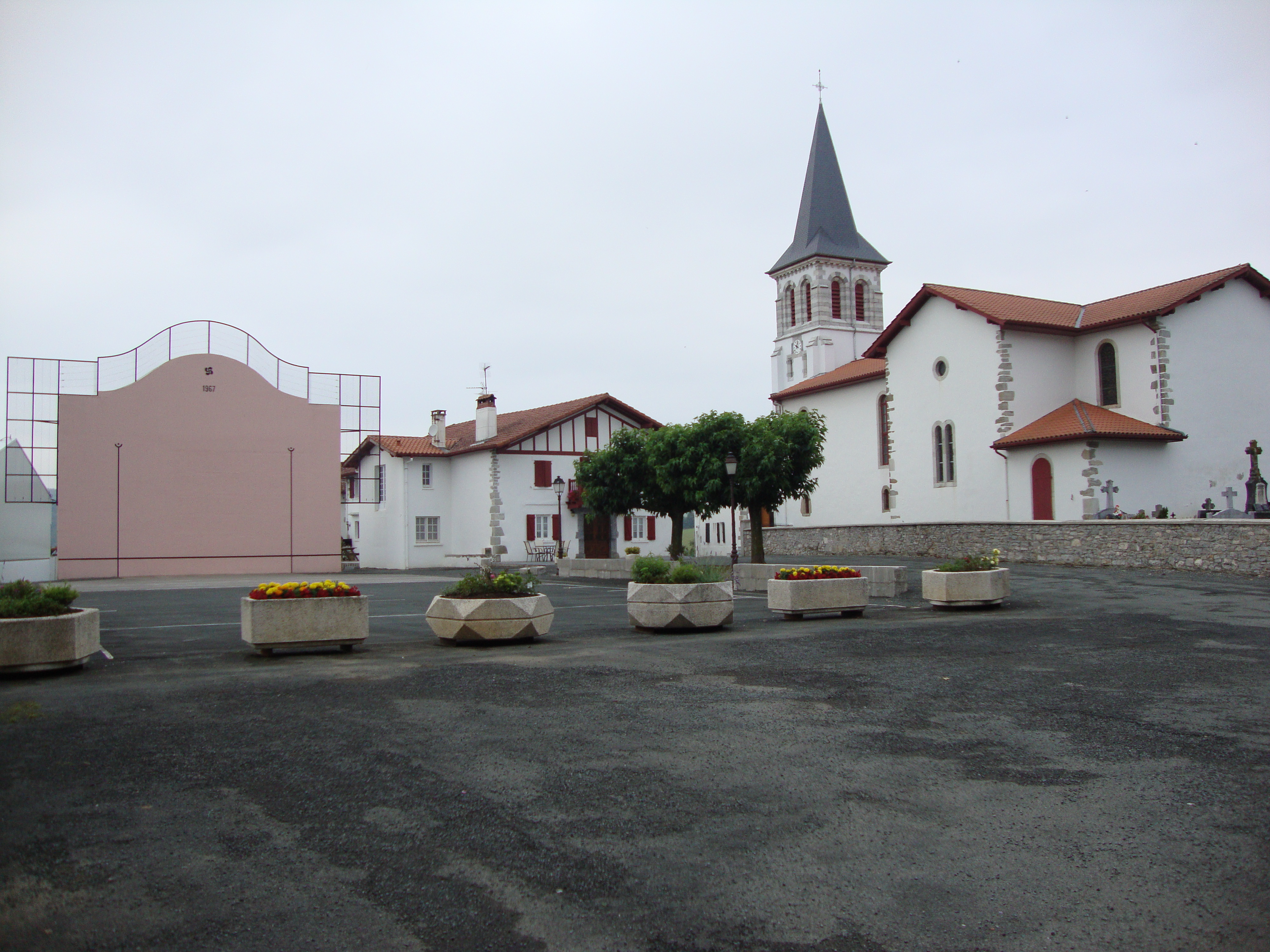 Beyrie-sur-Joyeuse_(Pyr-Atl,_Fr) the square with pelota court and church